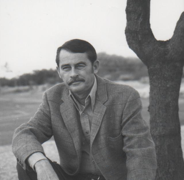 Author photo of Glendon Swarthout